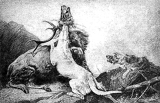 Irish Wolfhounds hunting a stag